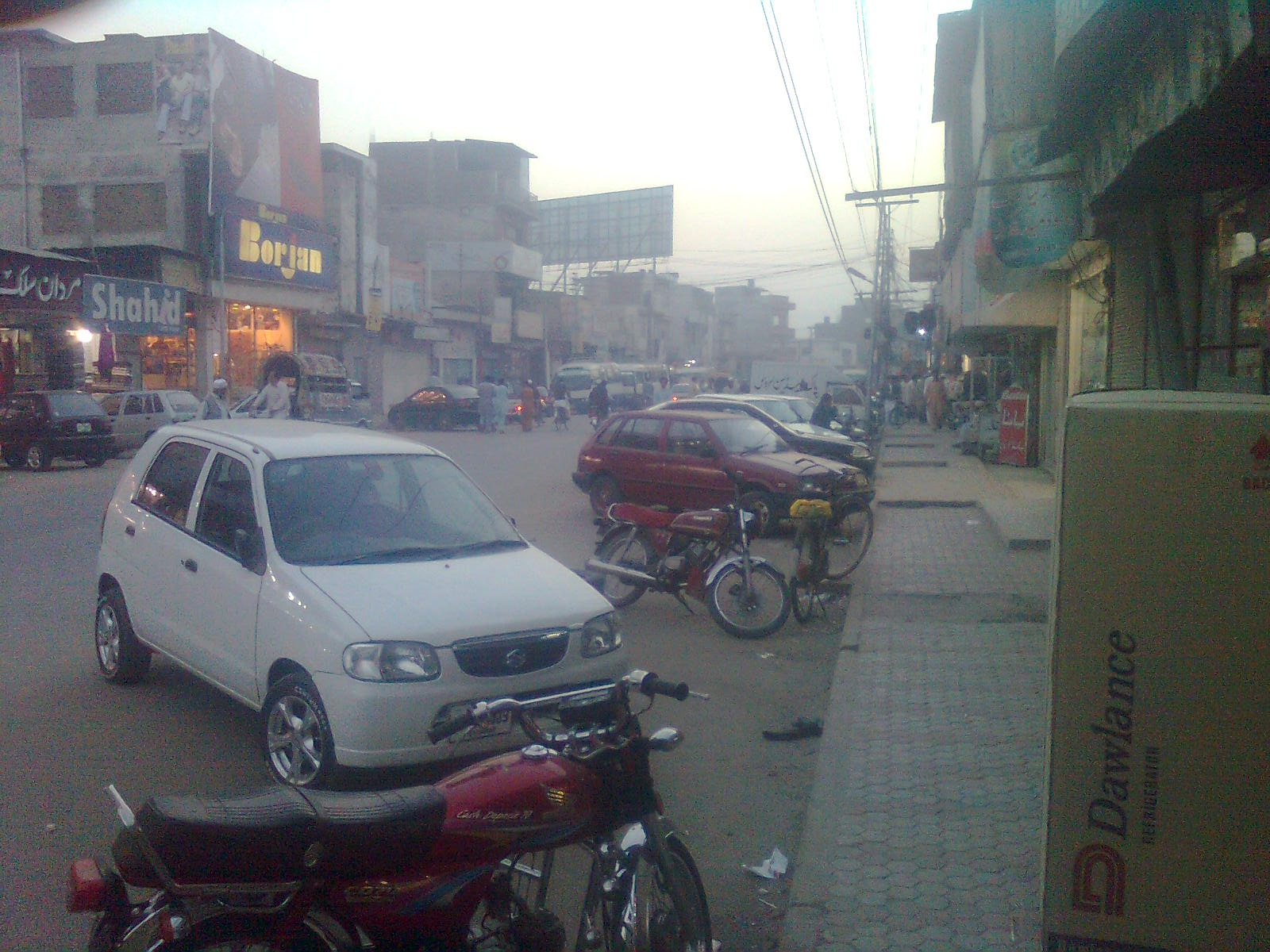 Bank road december 2010 Pictured by Adil Shah